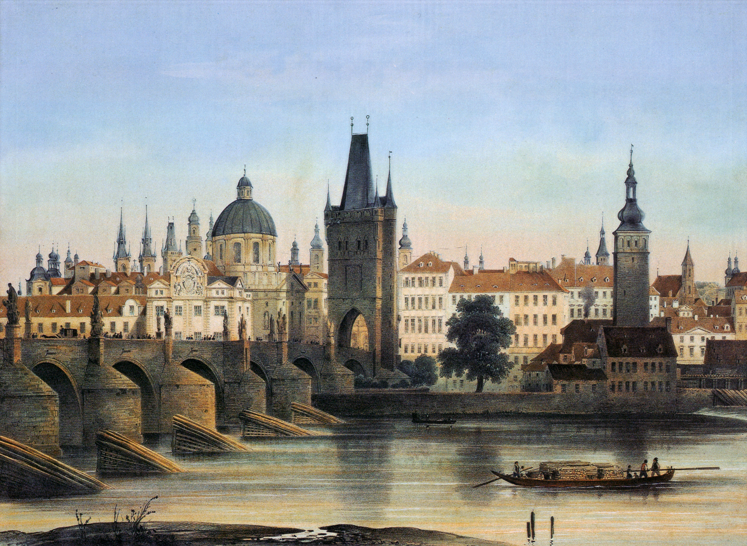 Charles Bridge, memorable lime-tree, 1840.